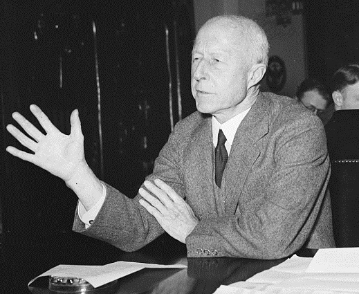 Charles F. Adams[1934]